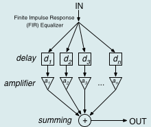 es::en:Image:FIR.png A Finite Impulse Response EQ, by iluvcapra